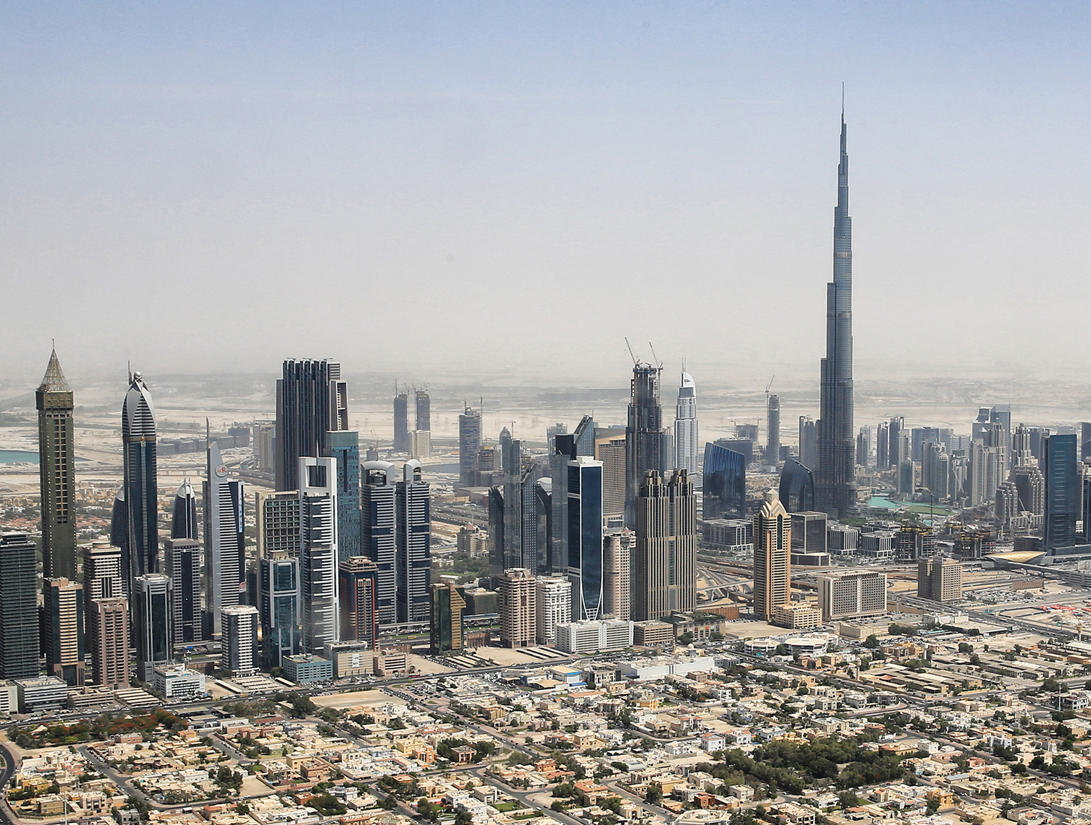 Skyline of Downtown Dubai with Burj Khalifa from a Helicopter (crop of File:Dubai skyline 2015.jpg)